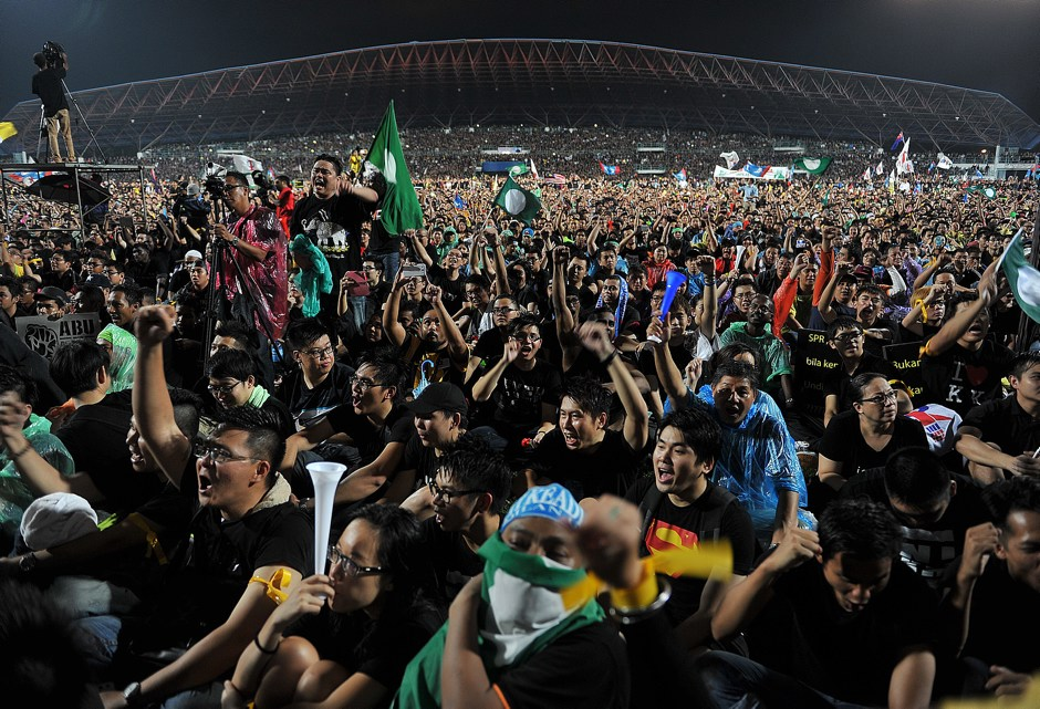 A Supporters listen to speeches during Thousands of Malaysians dressed in mourning black gathered May 8 to denounce elections which they claim were stolen through fraud by the coalition that has ruled for 56 years. in Kuala Lumpur 08 May 2013. PIX Firdaus Latif